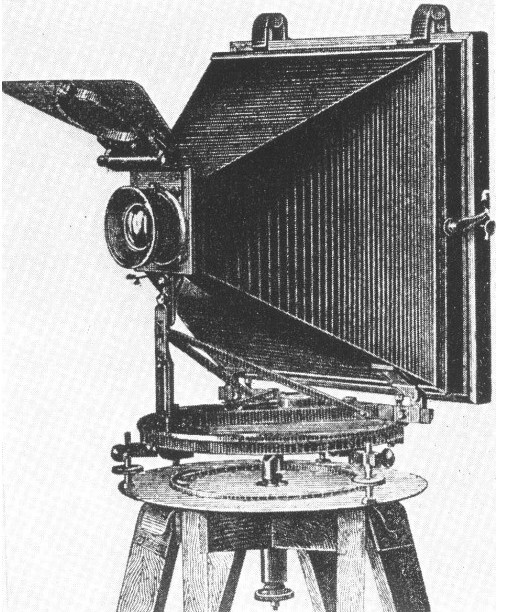 Meydenbauer’s camera developed in 1872